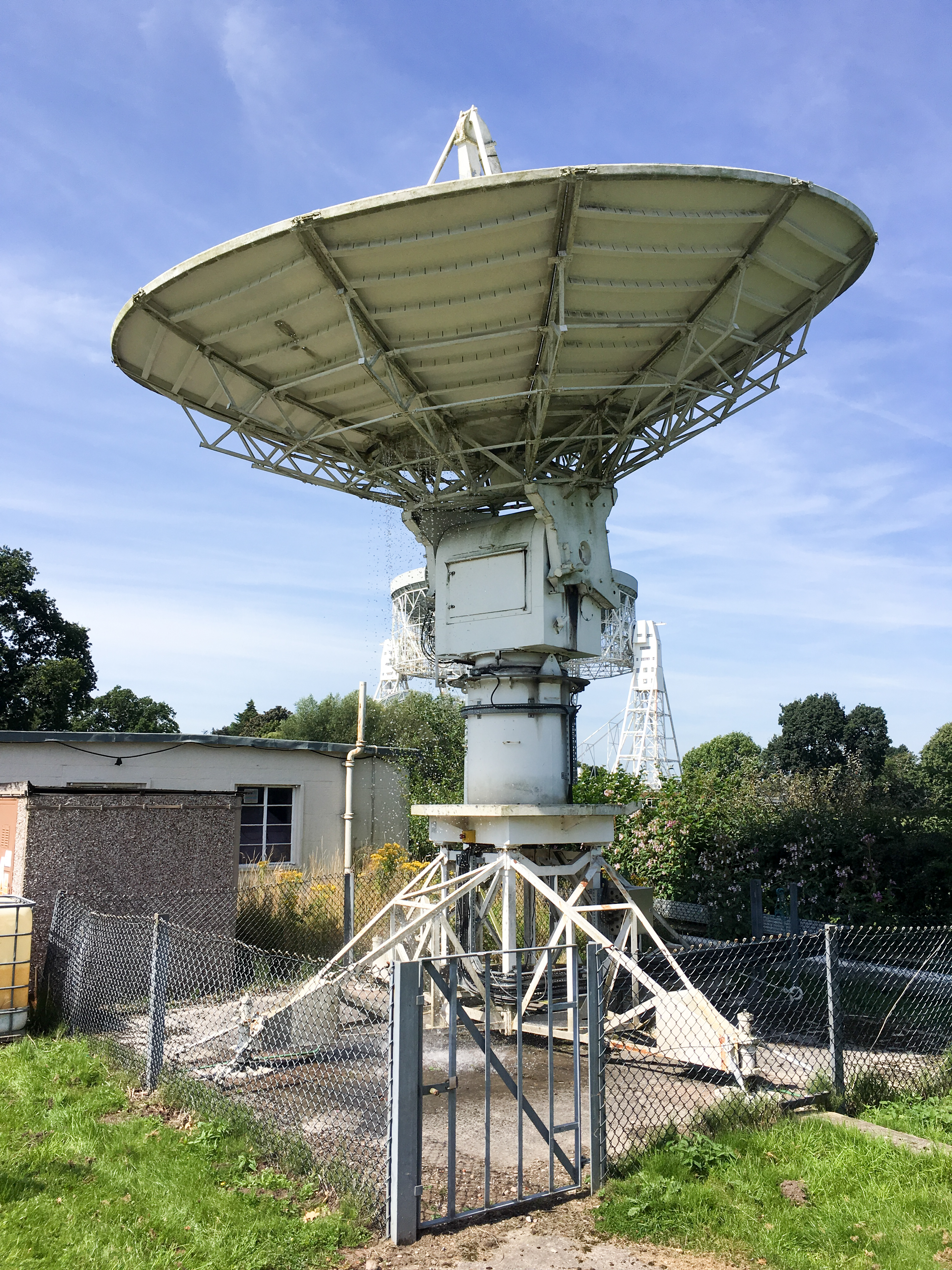 7m telescope, Jodrell Bank Observatory, UK